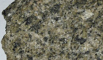 Titanite